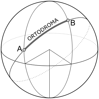 Great-circle distance